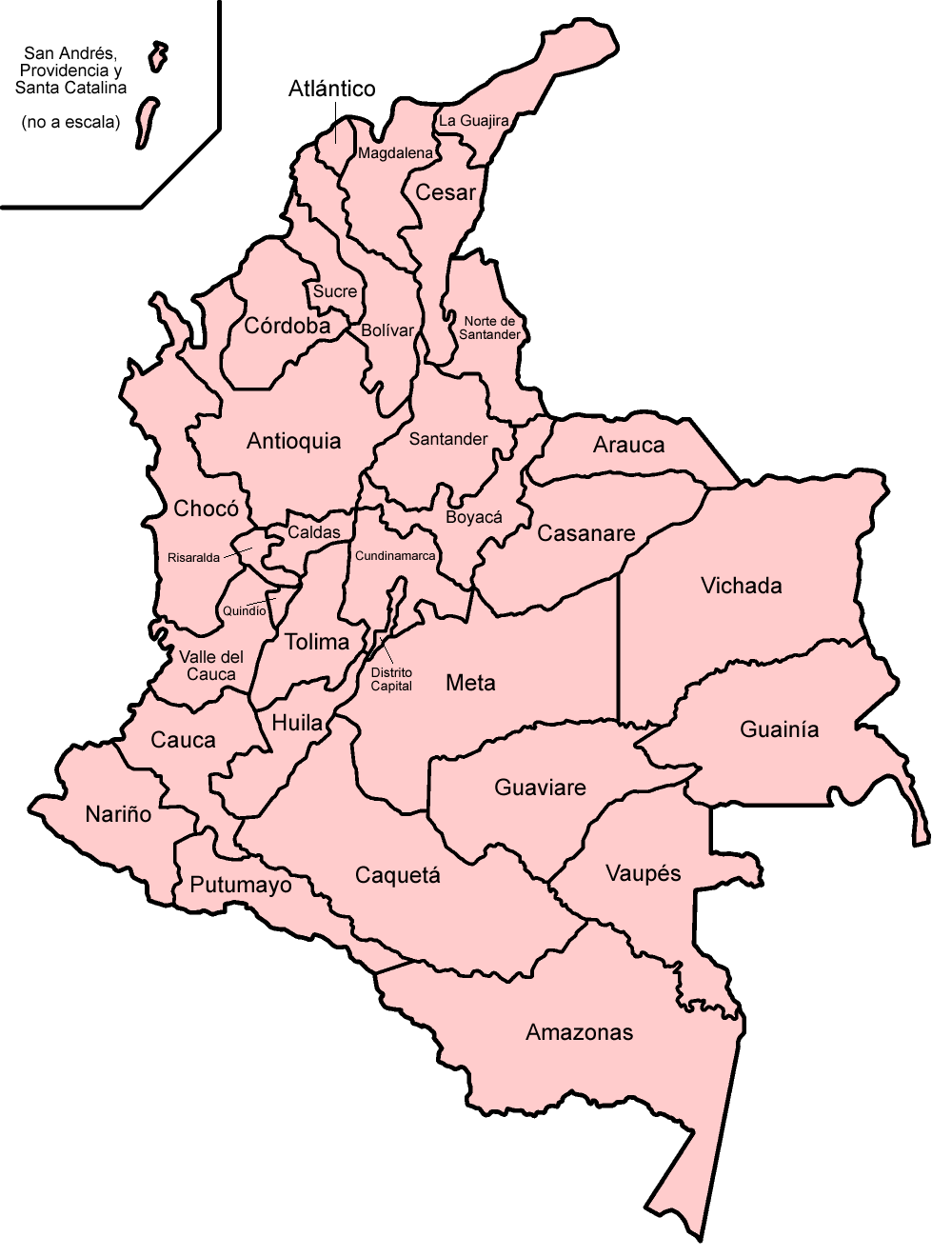 Map of the departments of Colombia in Spanish. Made by User:Golbez.